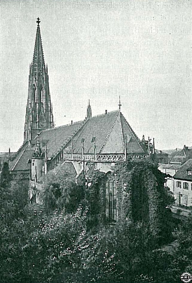 historical view of Heidelberg